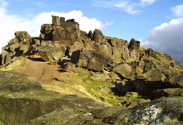 The Wainstones. A rocky outcrop on the west side of Hasty Bank. A popular place for novice rock climbers.